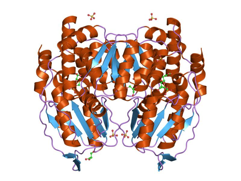 Cartoon representation of the molecular structure of protein registered with 1x9h code.